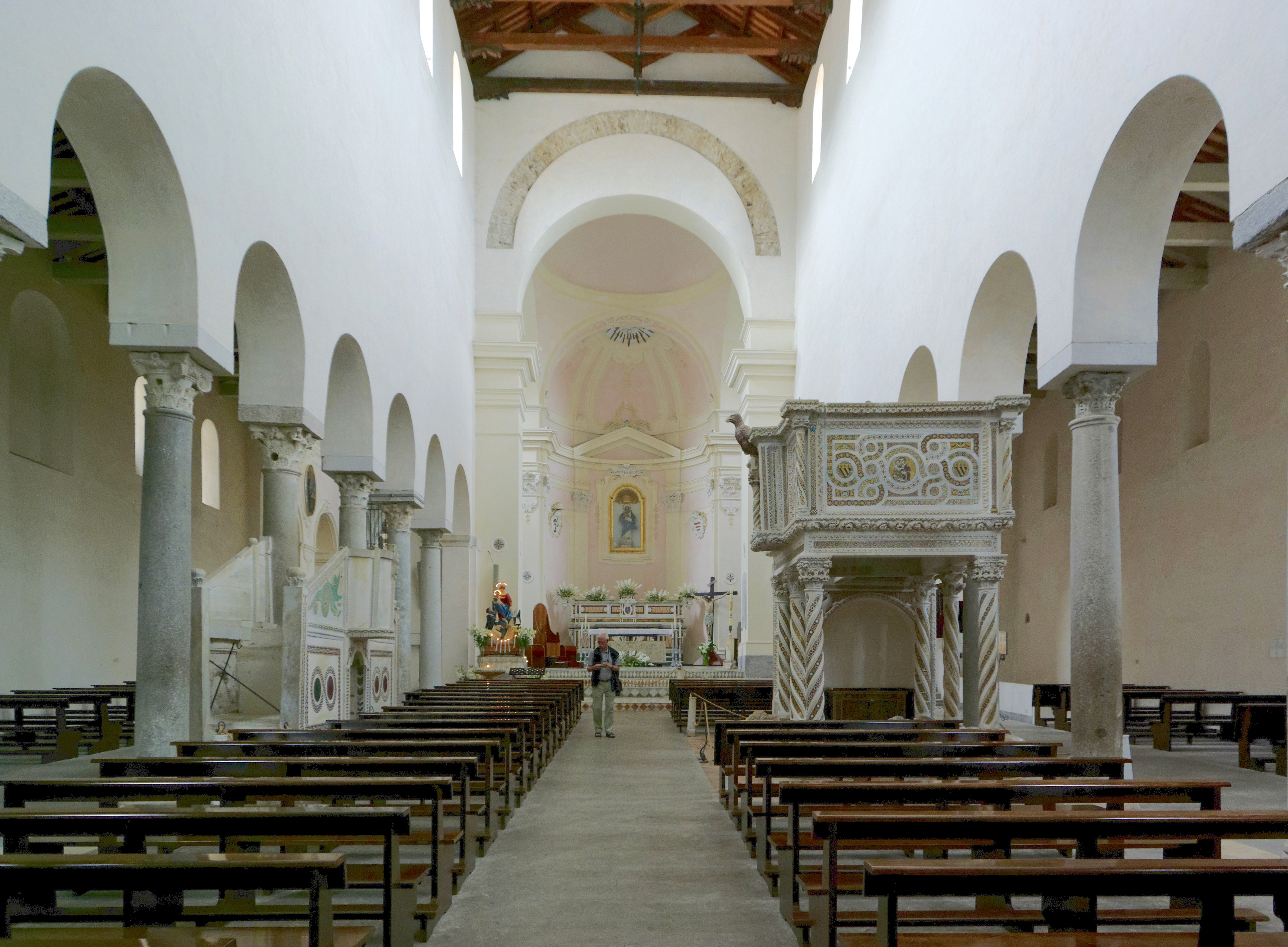 Ravello, cathedral